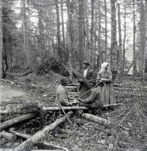 Woodcutters (Bohemian Forest)